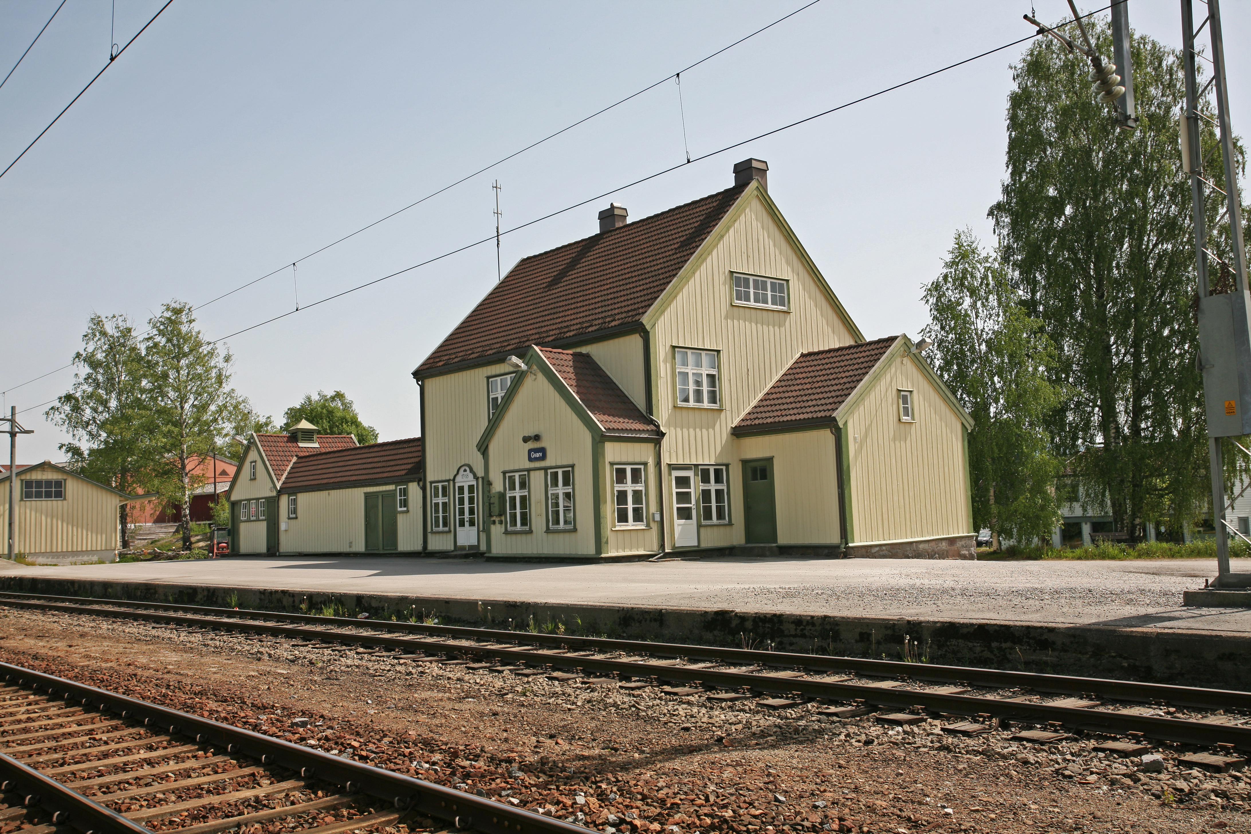 Picture of Gvarv Railway Station (Norway)